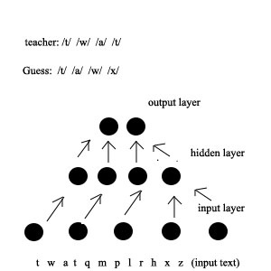 Back-propagation model